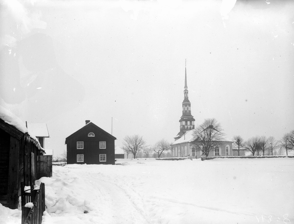 Winter view over Ingatorp Old Church and other buildings. The church, from 1755, was burnt by stroke of lightning in 1911 and a new church was built, with parts of the old church tower preserved. Vintervy över Ingatorps kyrka och andra byggnader. Kyrkan, från 1755, brann 1911 genom ett blixtnedslag och en ny kyrka byggdes, med delar av det gamla tornet bevarade. Parish (socken): Ingatorp Province (landskap): Småland Municipality (kommun): Eksjö County (län): Jönköping Photograph by: Unknown Date: 1895 Format: Glass plate negative Kulturmiljöbild: 16000200082388 (Persistent URL) Read more about the photo database (in english)